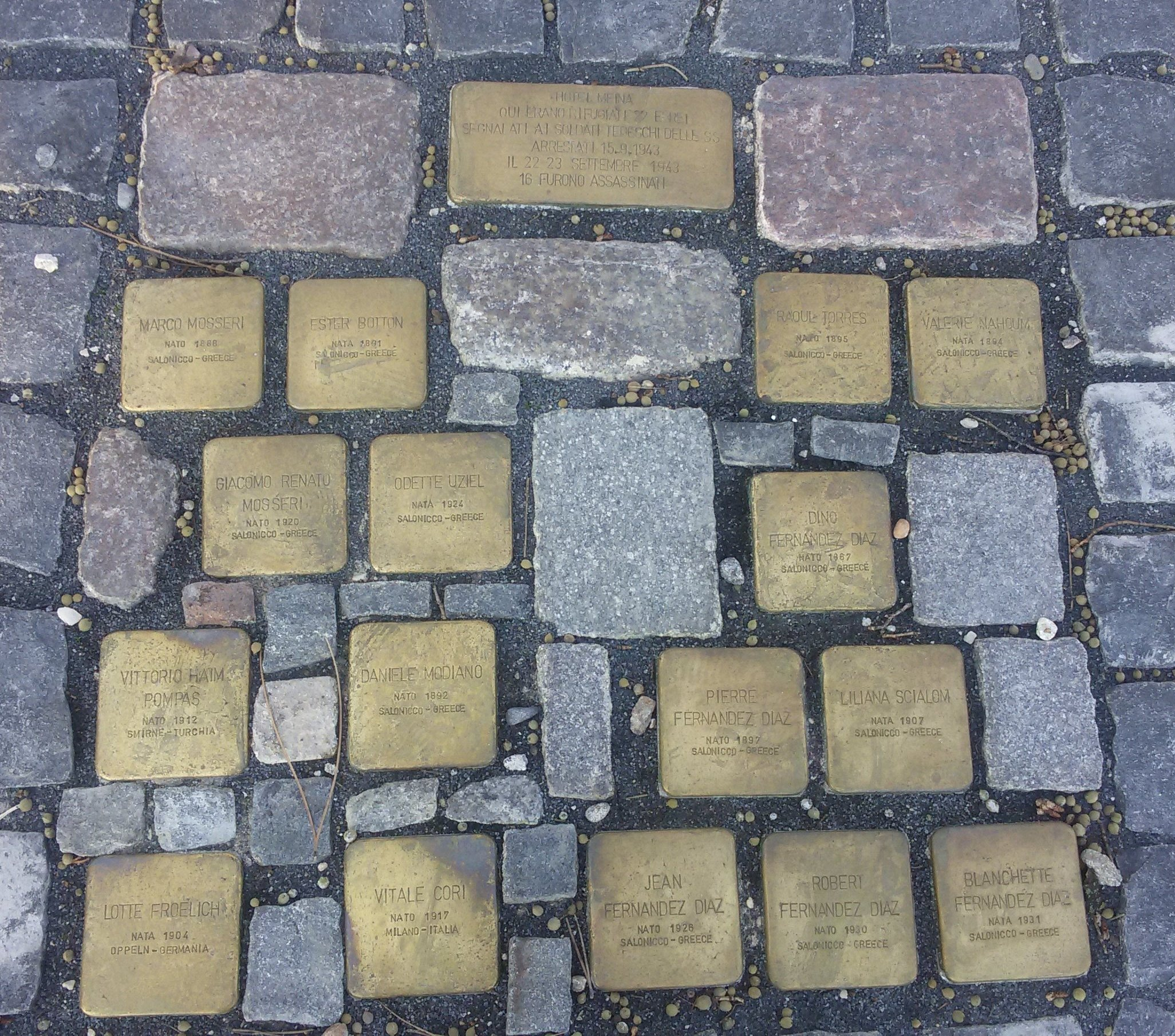 Stolperstein in Meina (NO) Italy